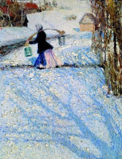 "Snow in March" by Igor Grabar, 1904.